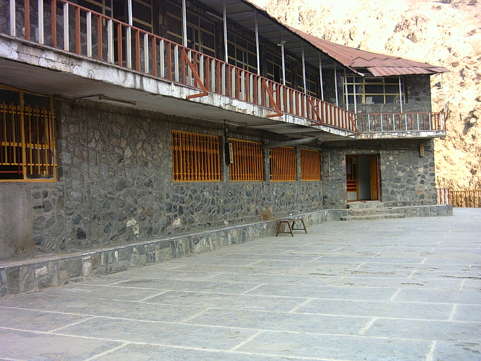 Palangchal Camp, Tehran, Iran